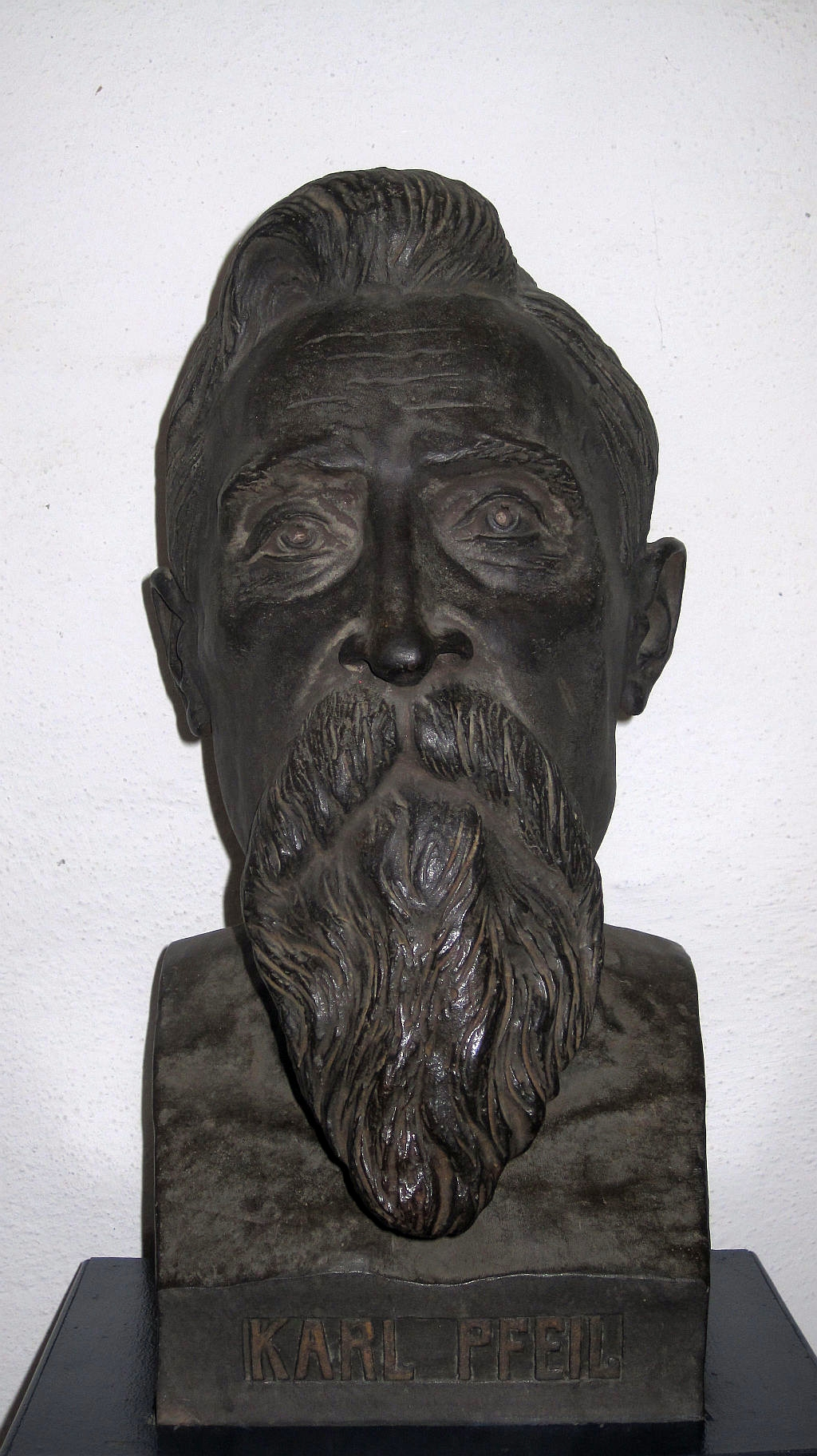 bronze sculpture of Carl Pfeil, curator of castle museum Biedenkopf